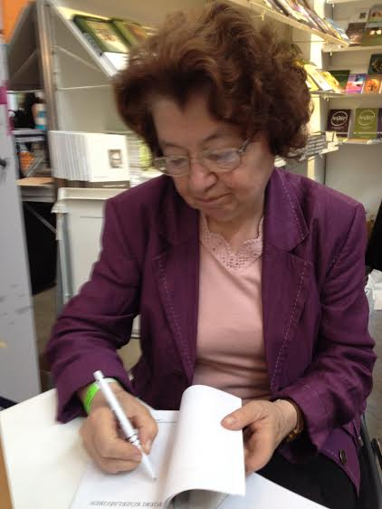 Júlia Pásty recommends volumes of short stories